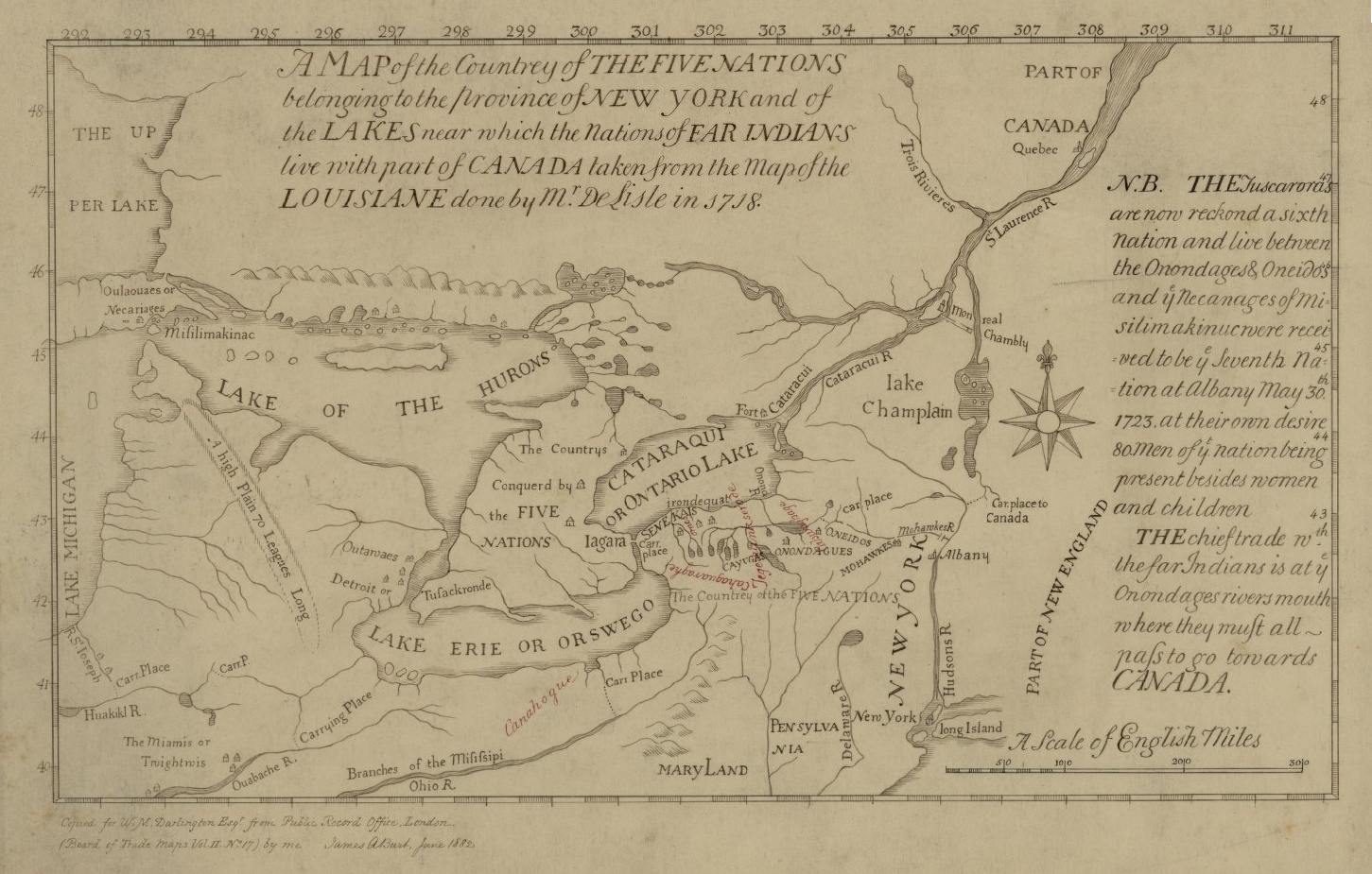 This is a map of the Five Nations that is part of the Darlington map collection housed in the Archives Service Center, University Library System, University of Pittsburgh, Pittsburgh Pittsburgh, PA US